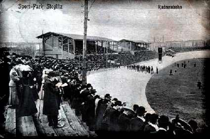 cycling track in Steglitz 1910